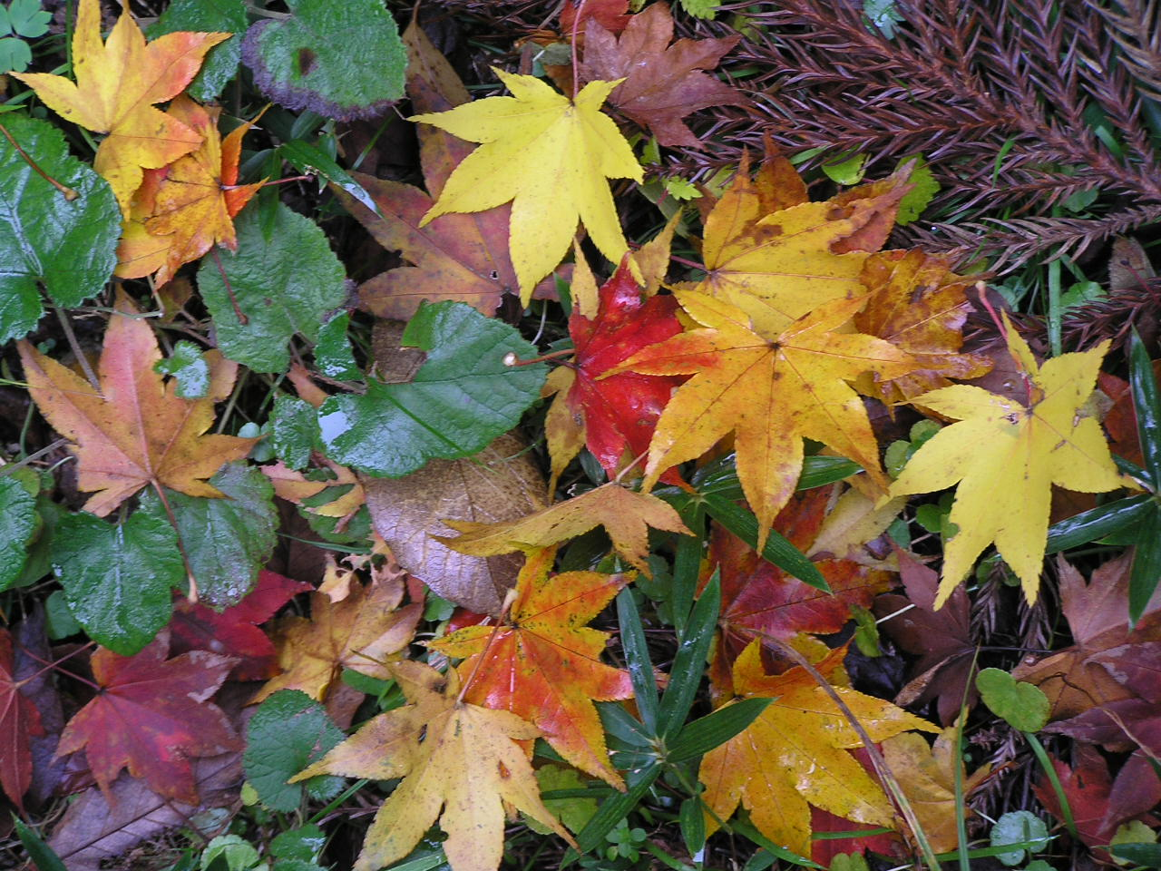 Momiji